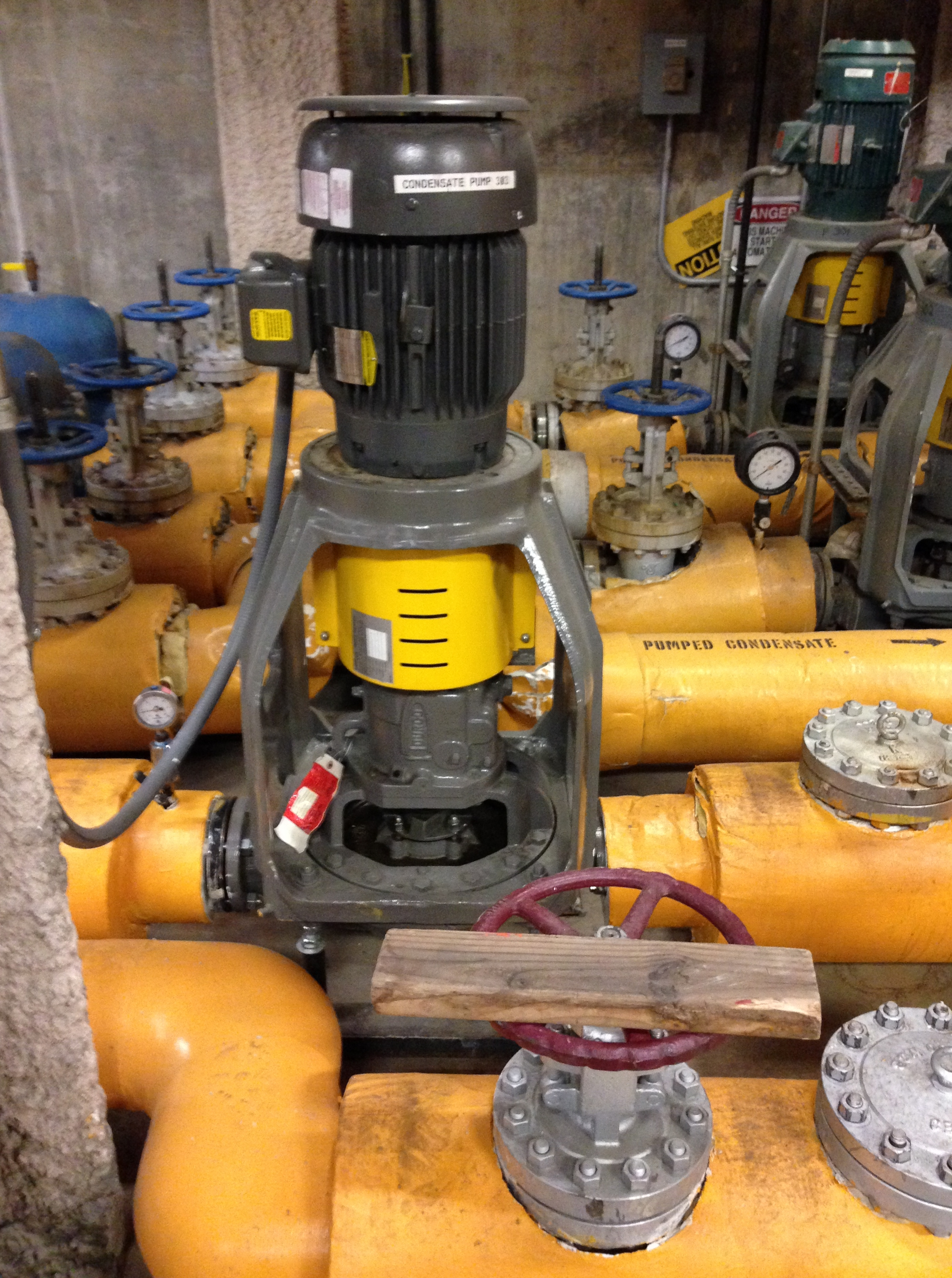 Condensate return pump, returning condensate back to make-up tank.